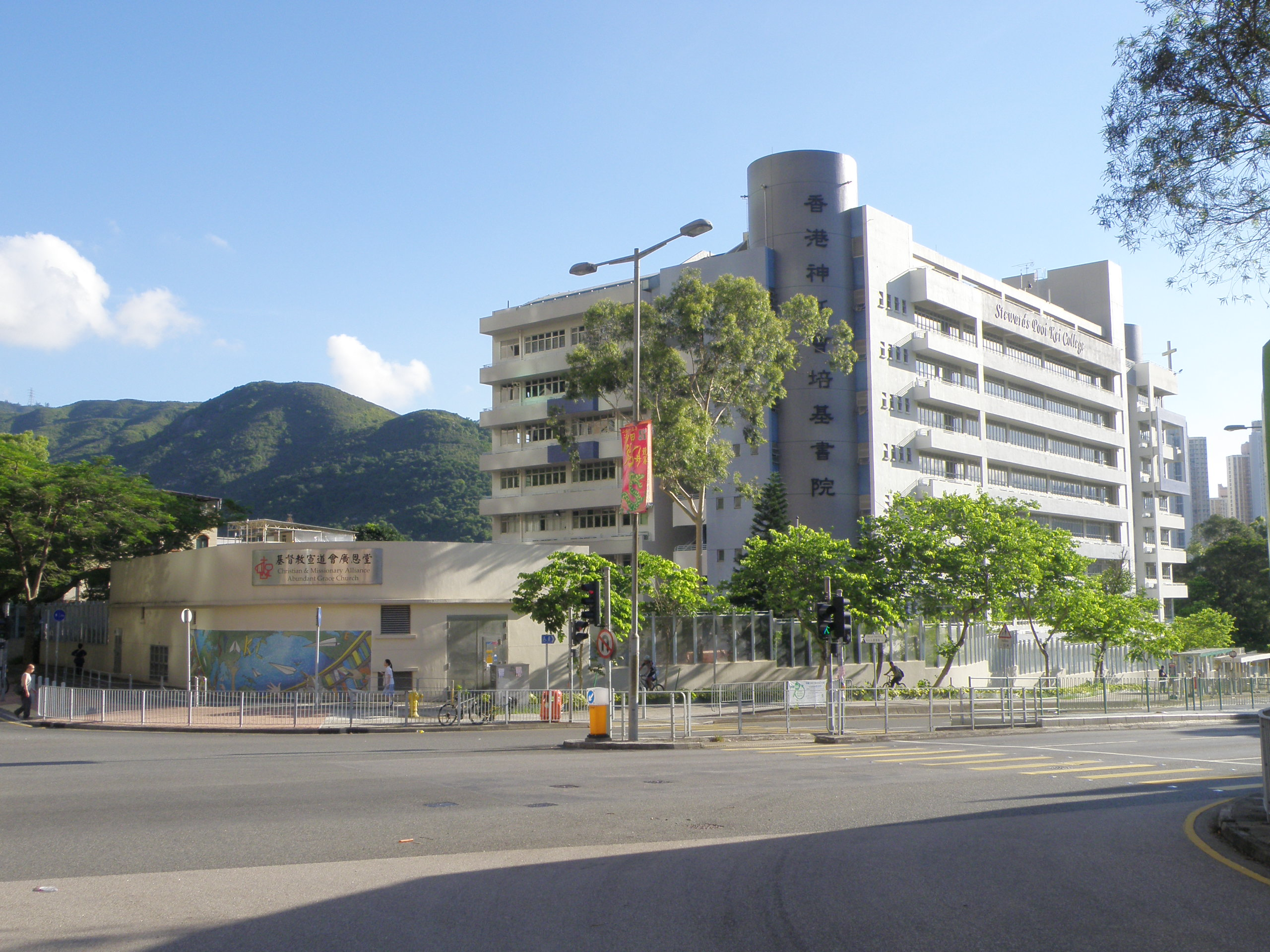 Stewards Pooi Kei College in Siu Lek Yuen, Hong Kong.